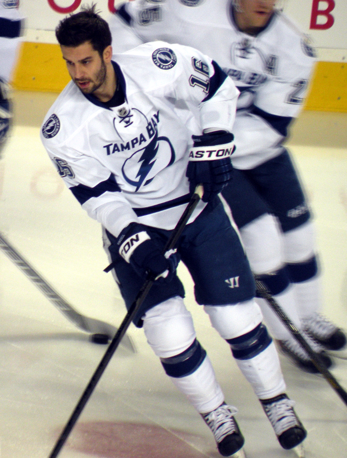 Tampa Bay Lightning forward Teddy Purcel prior to a National Hockey League game against Calgary